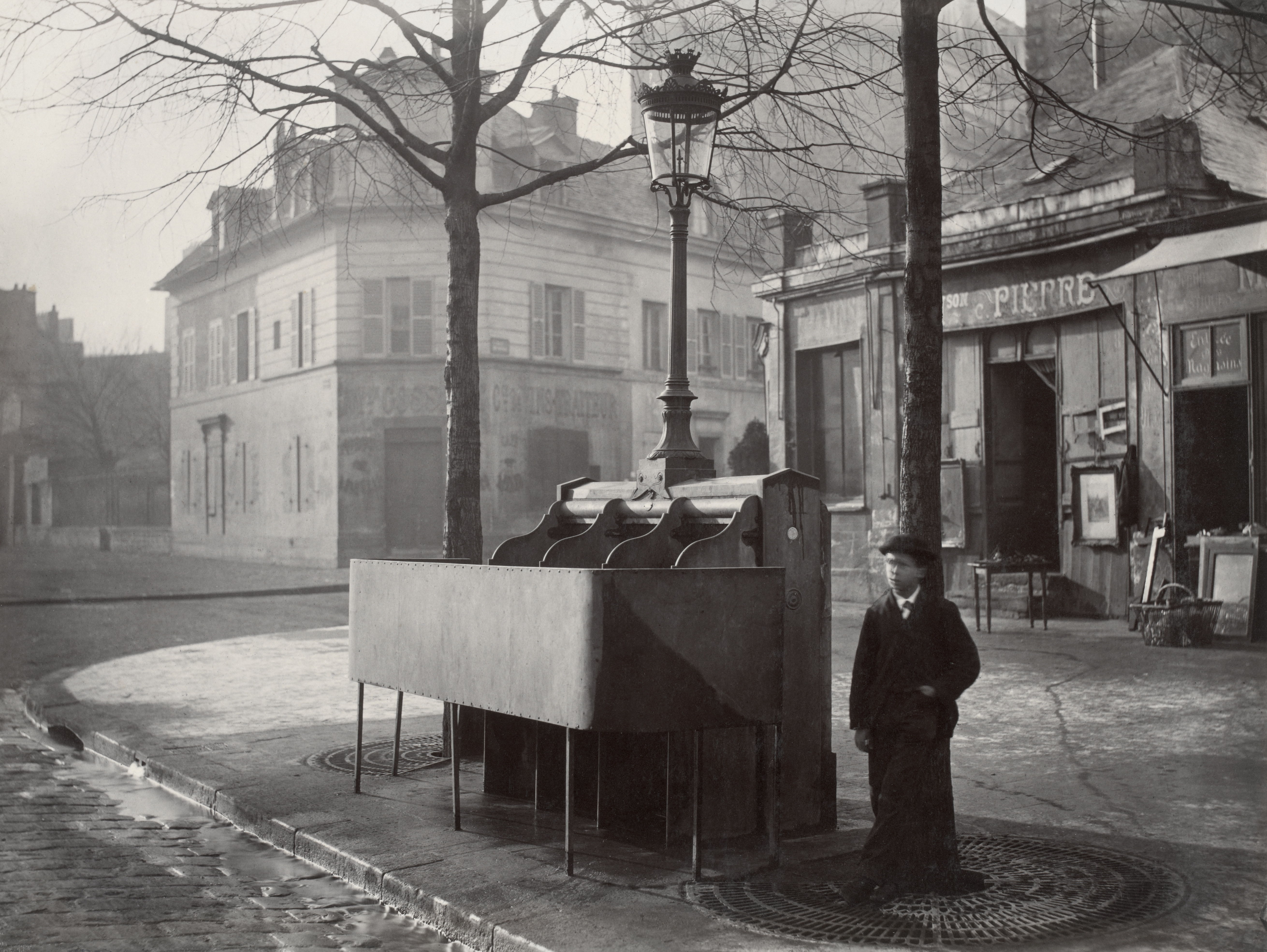 Cast iron and slate urinal with three stalls raised modesty screen, mounted with lamppost and lantern. Boy standing nearby beside lamppost, face blurred by movement. Avenue du Maine, Paris, France.